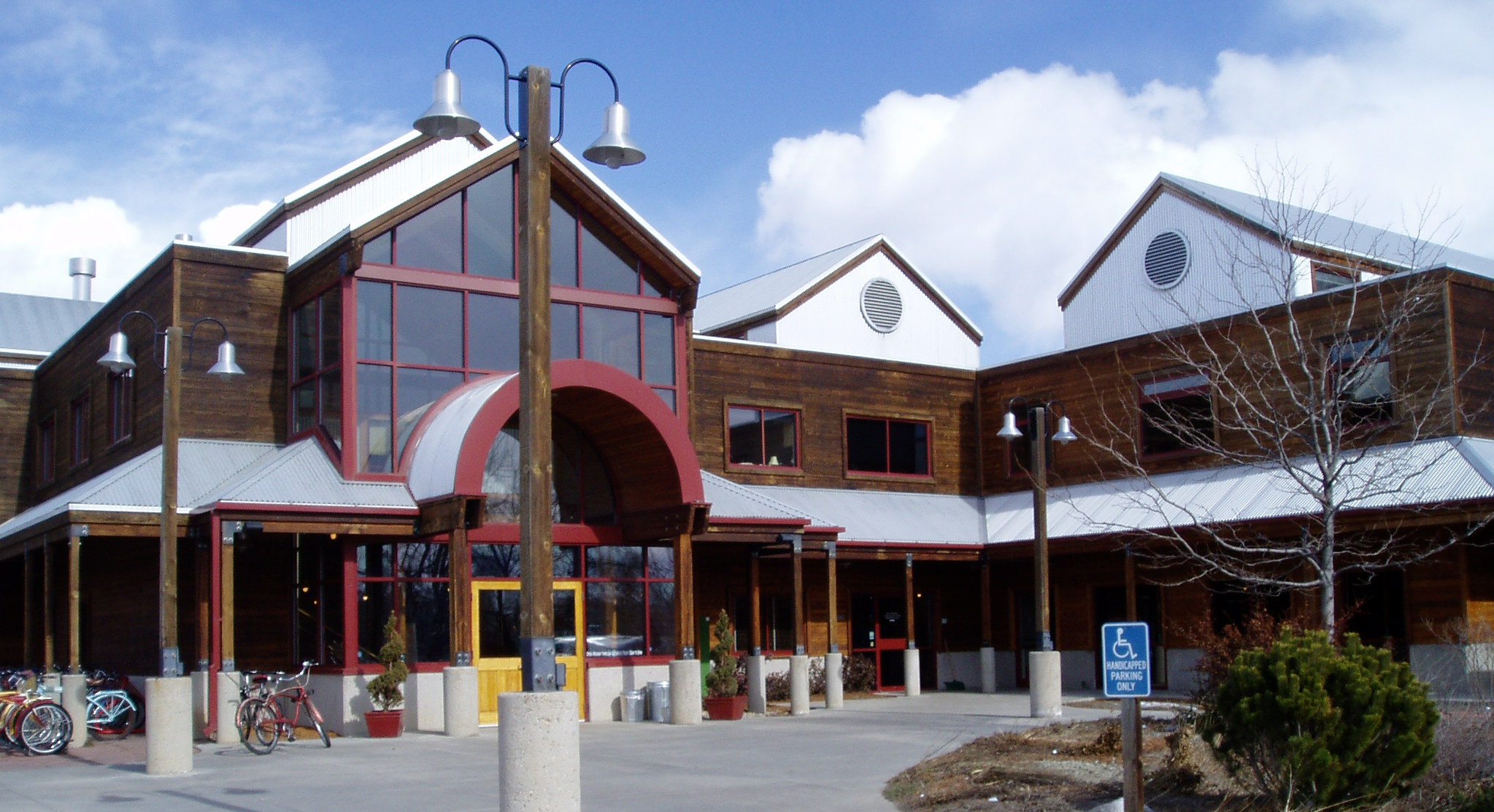 The New Belgium Brewery in Fort Collins, CO.